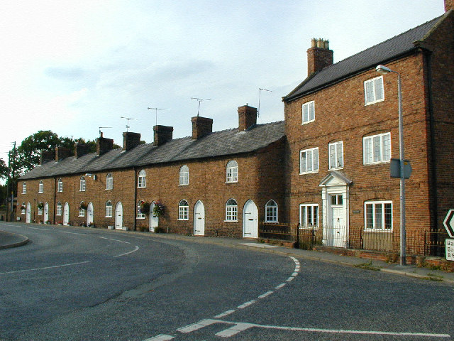 House and cottages at overton-on-Dee. Probably Georgian and near the centreof the village, but may have been a farmhouse and workers cottages.